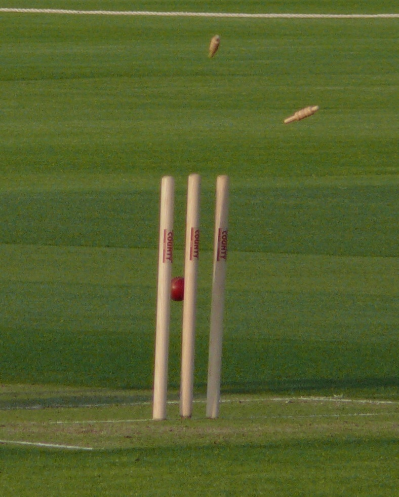 Wicket, the stumps being hit by a ball.